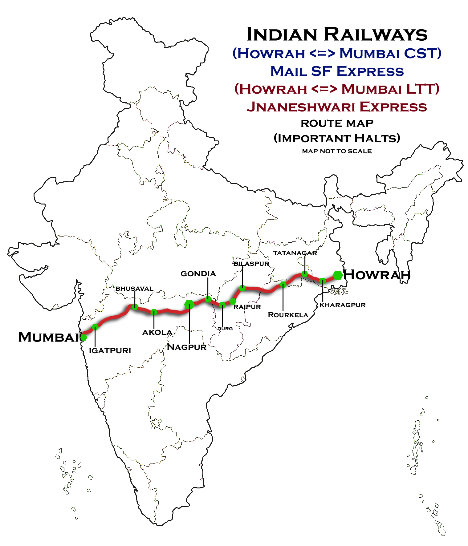 (Howrah - Mumbai) Mail Express and Jnaneshwari Express Route map